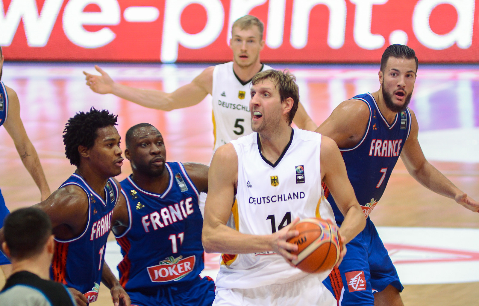 Dirk Nowitzki playing for Germany in friendly game against France on 30 August 2015.